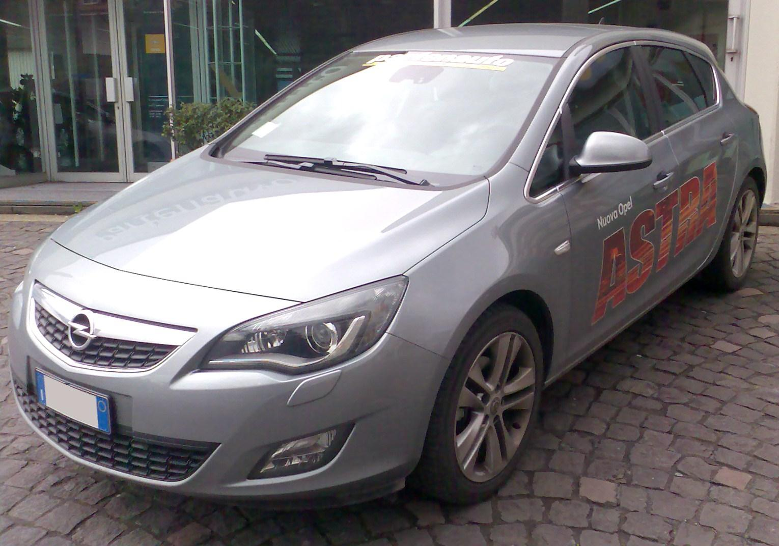 2010 Opel Astra J front